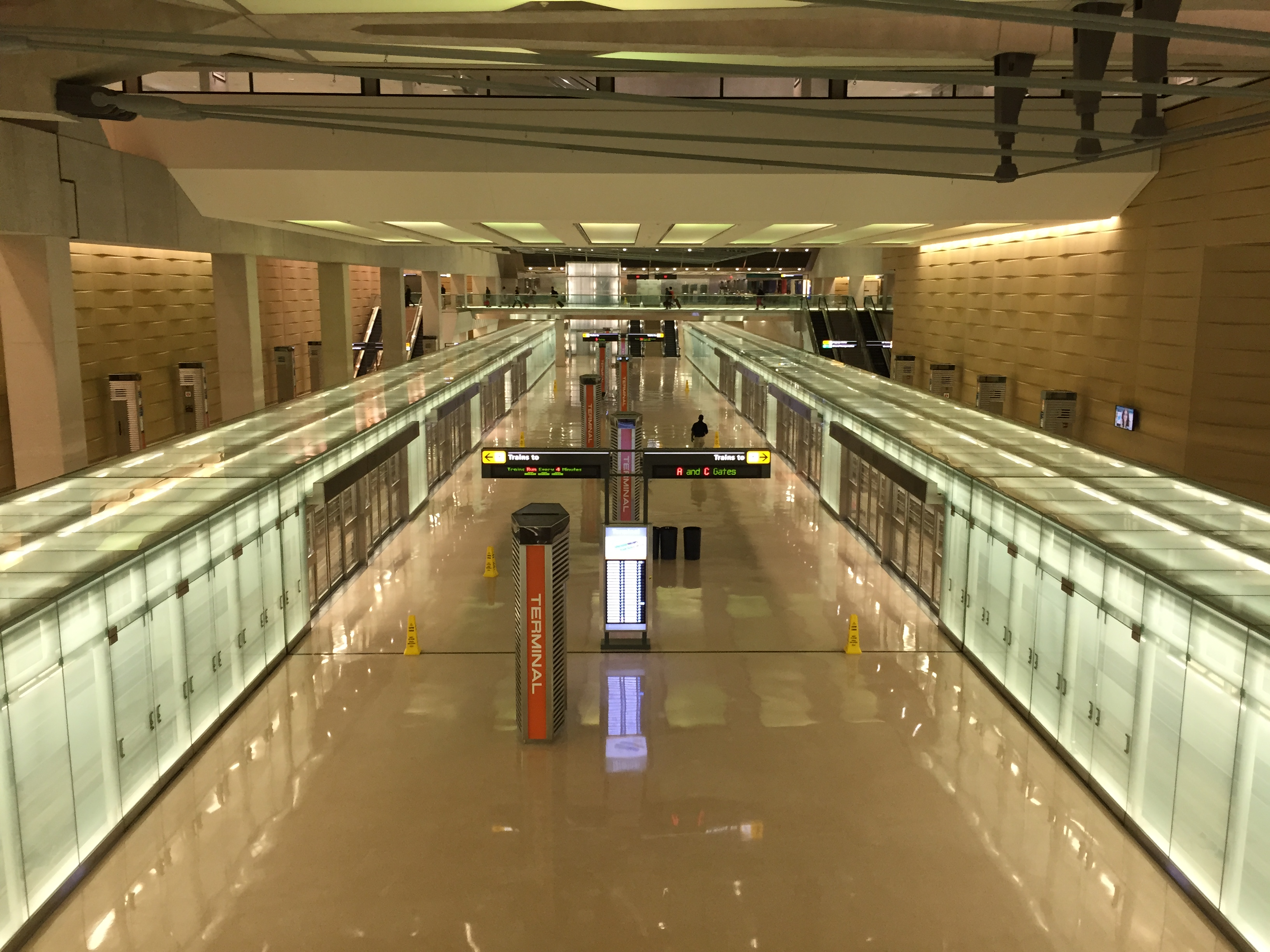 AeroTrain station at the main terminal of Washington Dulles International Airport in Virginia